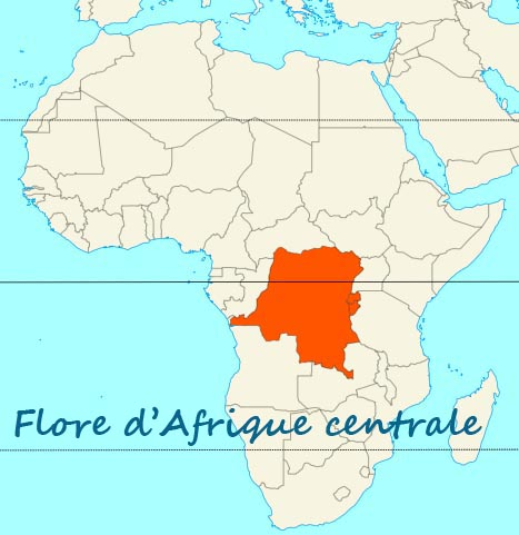 Area covered by the flore d'Afrique centrale